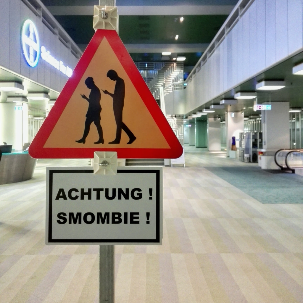 Achtung! Smombie! ("Caution! Smombie!") Sign in company lobby warning of smartphone zombies.